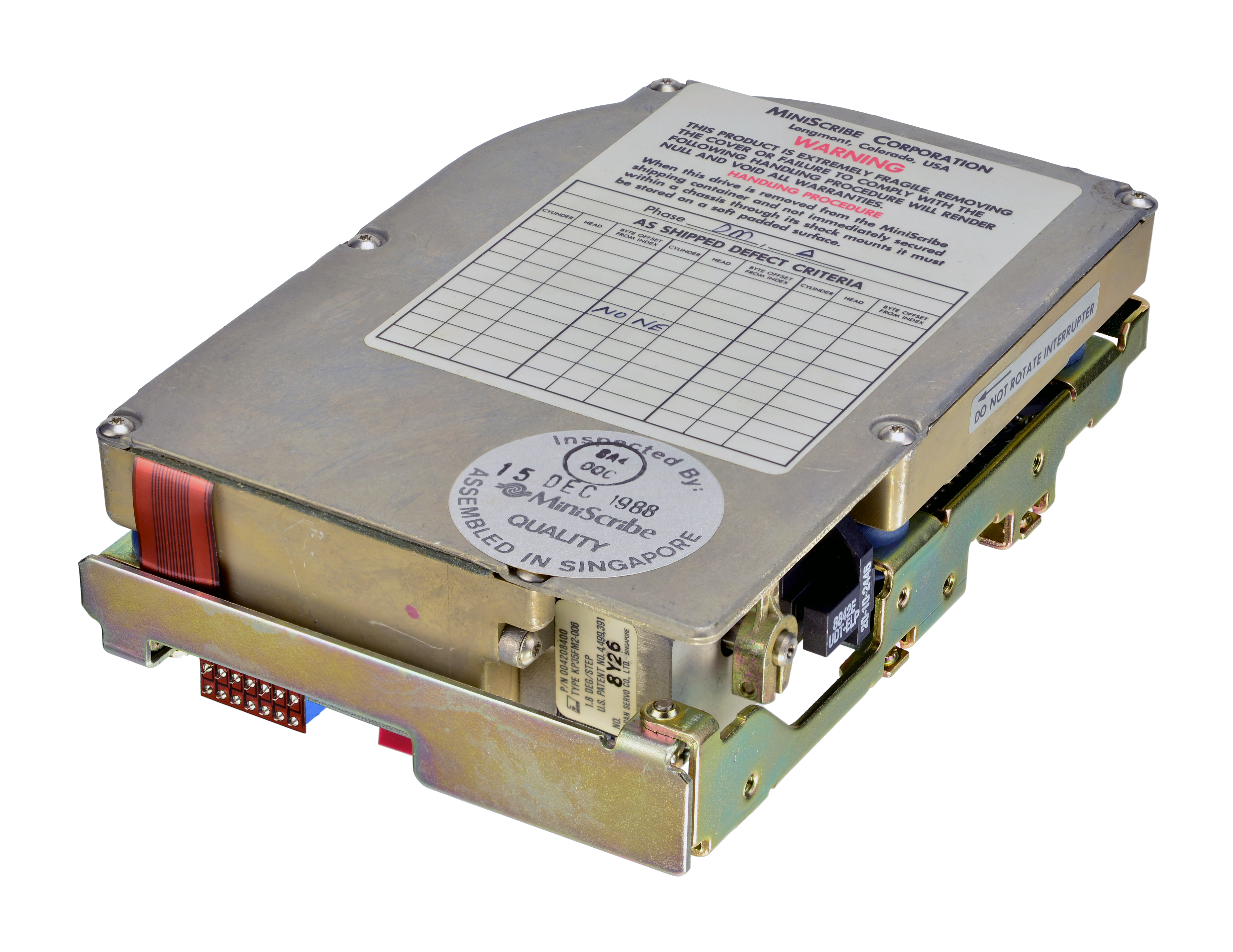 The MiniScribe Corporation Model 8425 3.5 inch Hard Disk Drive (HDD), with a storage capacity of 21 Megabytes of data. This particular unit was assembled on the 15 of December 1988, and was installed on the Schneider Tower AT System 220.